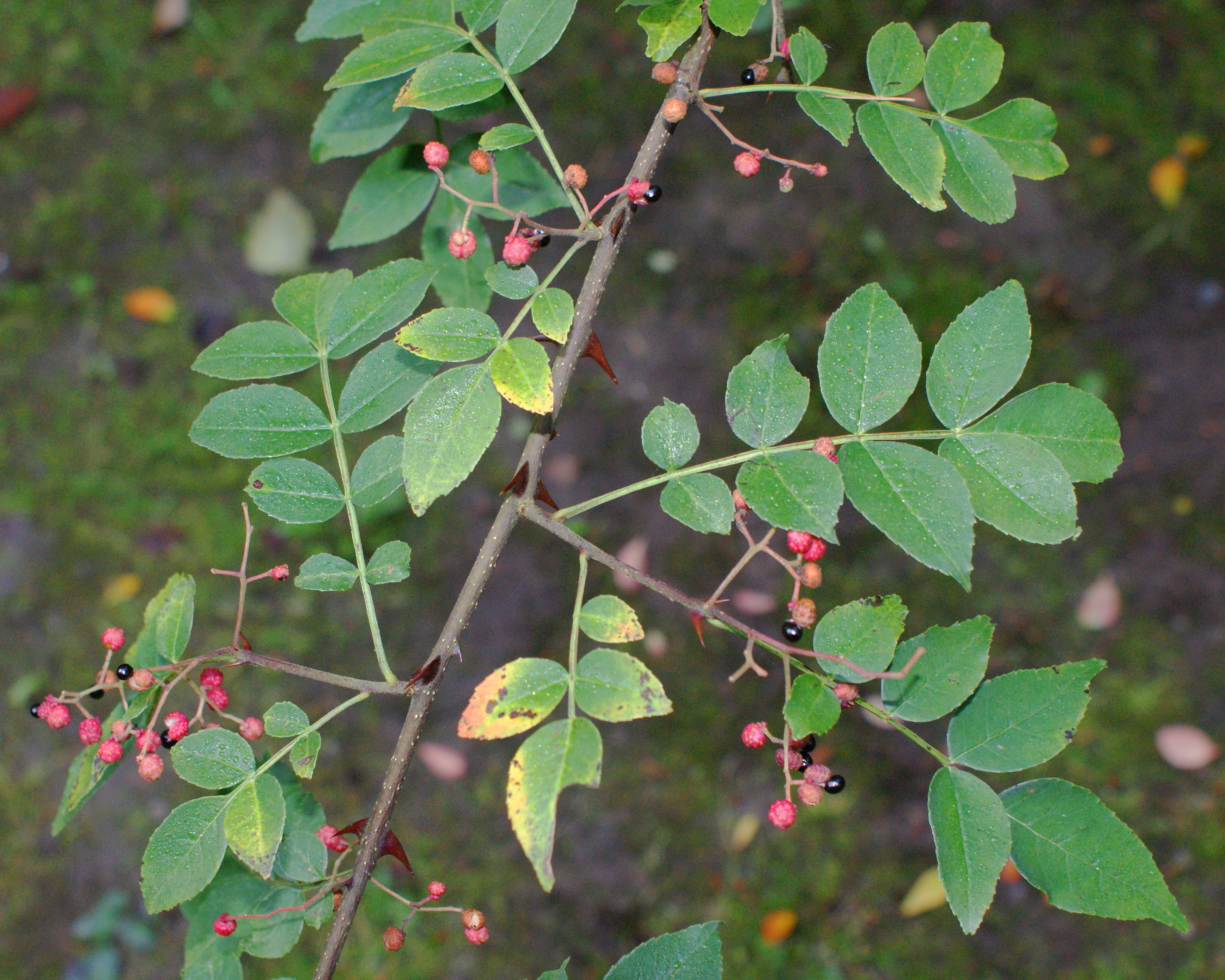 Zanthoxylum simulans in the arboretum in Glinna (NW Poland)